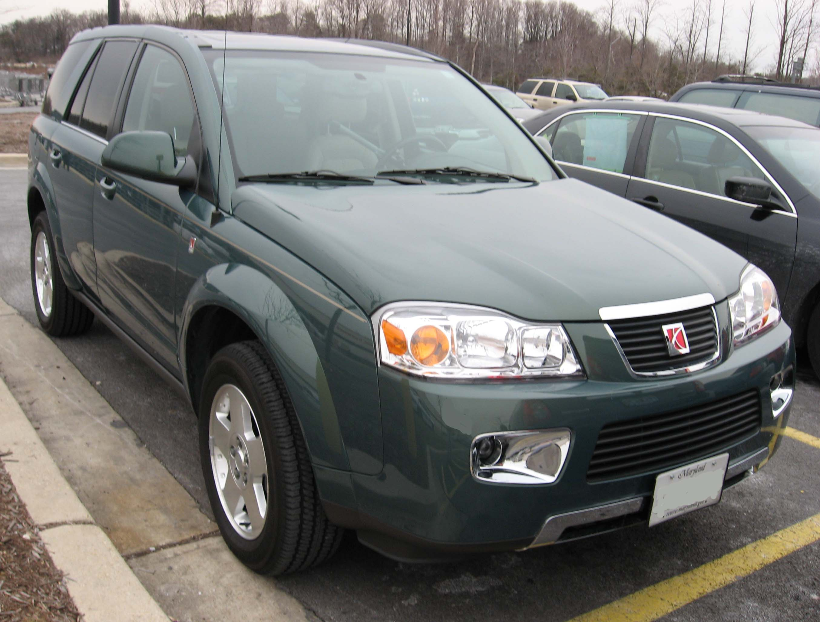 2006-2007 Saturn Vue V6 AWD photographed in USA.